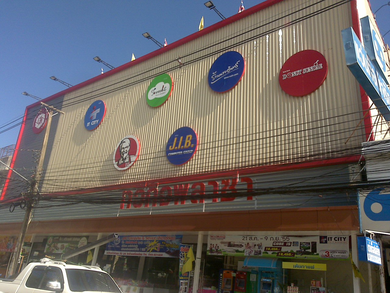 Taweekit Plaza Buriram, Thailand